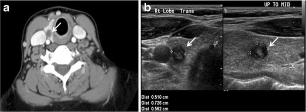 For context, see Computed tomography of the thyroid.